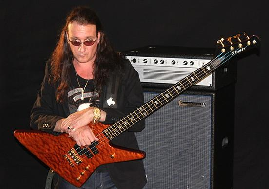 Date of Death May 20, 2014 Randy Coven, a bassist who worked with Steve Vai and Yngwie Malmsteen , has died at age 54. Coven was a specialist in neoclassical and heavy metal styles. He met Steve Vai while attending Berklee College of Music, and the two formed a band in the late 1970s called "Morning Thunder". He toured with Yngwie between 1999 and 2001. He released a solo album in 1985, "Funk Me Tender". An amazing bassist he has collaborated with numerous musicians including Deep Purple's Steve Morse and Zakk Wylde